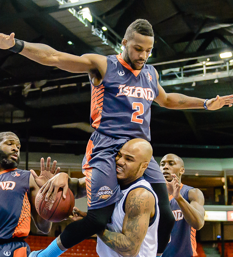 A real Circus of a game.